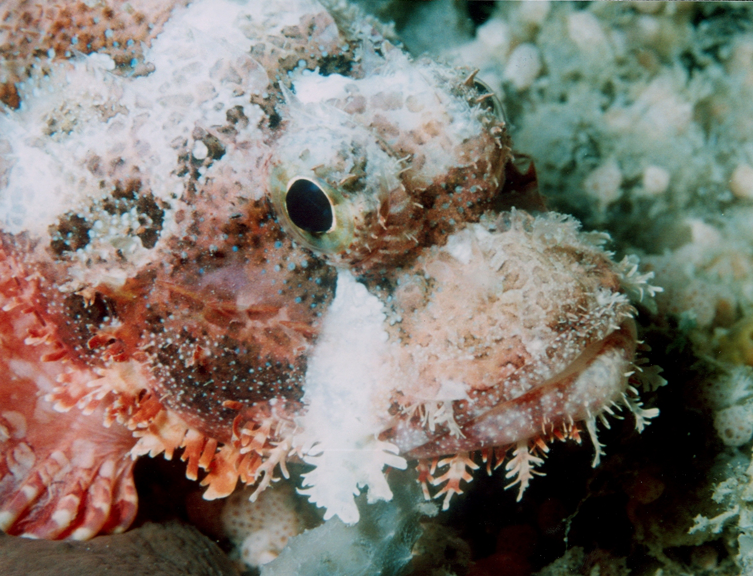 Barchin scorpionfish (Sebastapistes strongia) Image ID: reef0987, NOAA's Coral Kingdom Collection Location: Guam, Mariana Islands